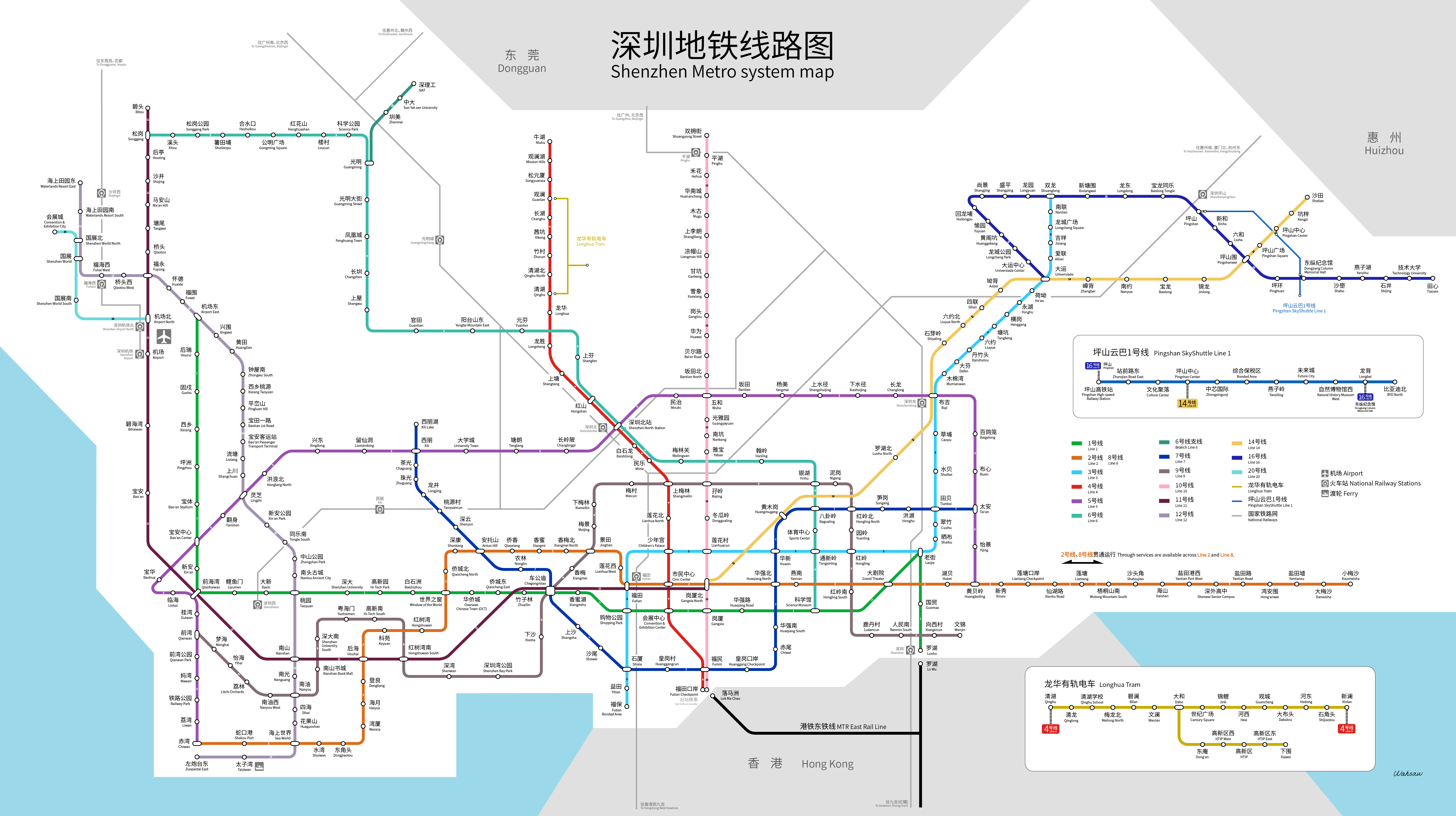 System Map of Shenzhen Metro (Rapid Transit) A predicted version showing how the system looks like shortly after December 2019 when Line 5 (Phase II) and Line 9 (Phase II) begin operation.